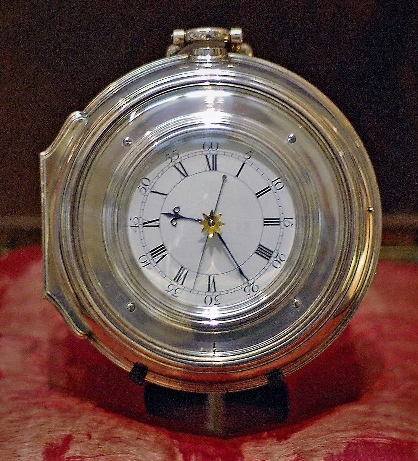 John Harrison's famous chronometer